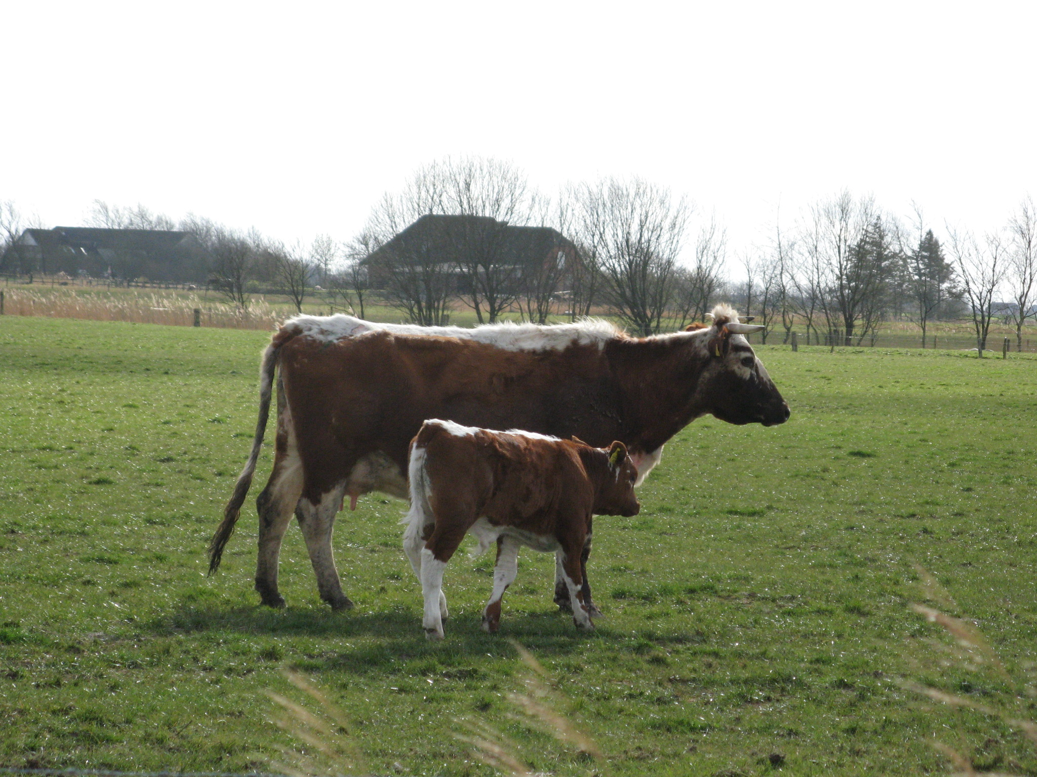 Cattle close to Seebüll Author: Dirk Ingo Franke